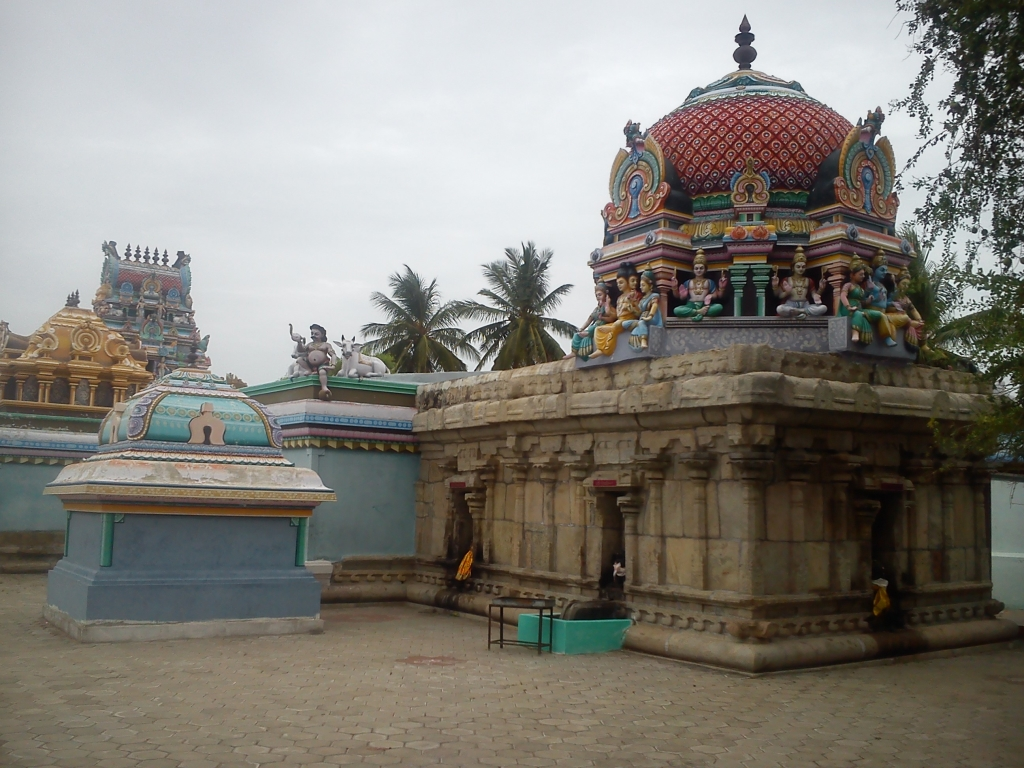 shiva kopuram